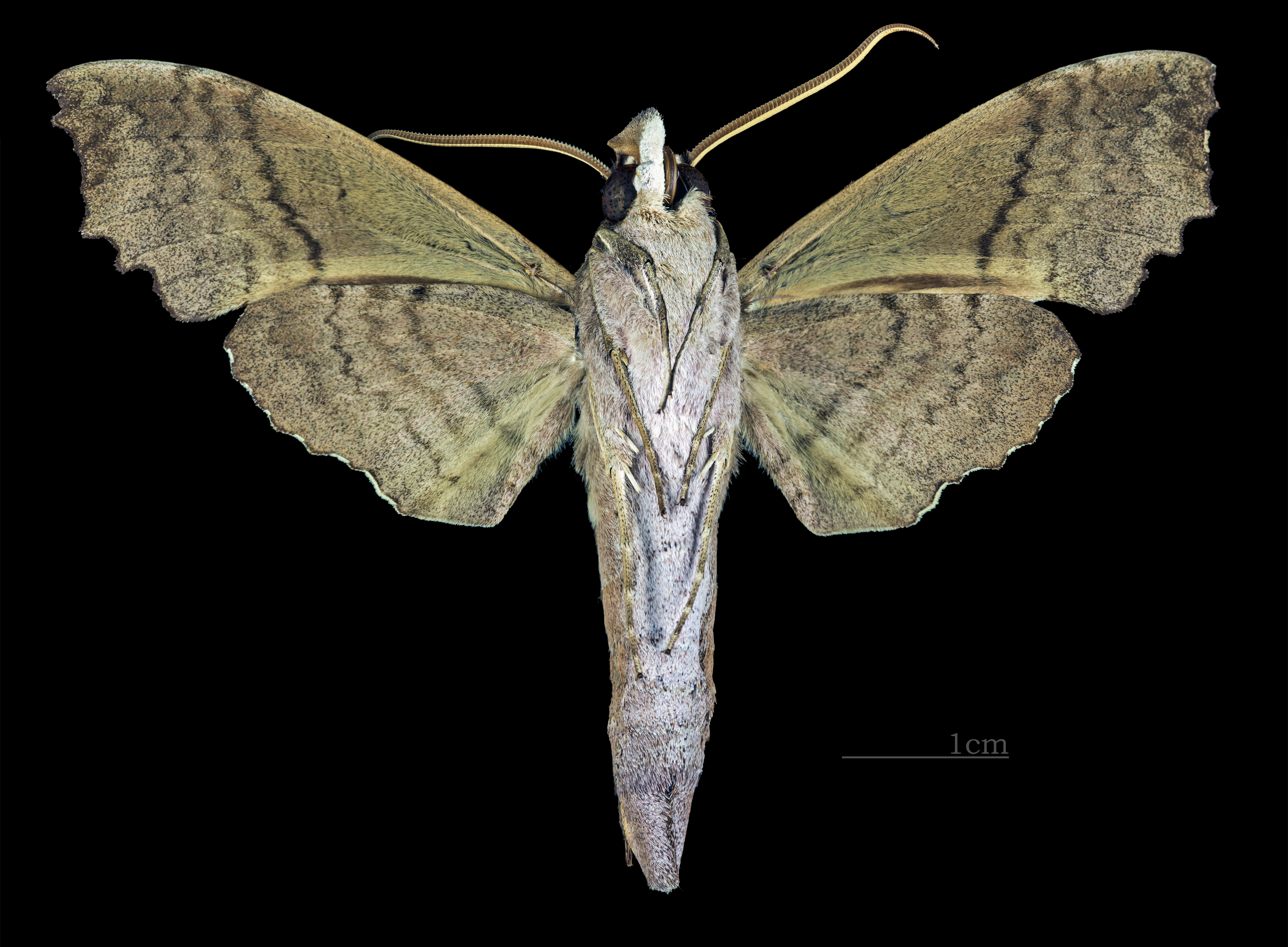 Aleuron carinata - △ Ventral side